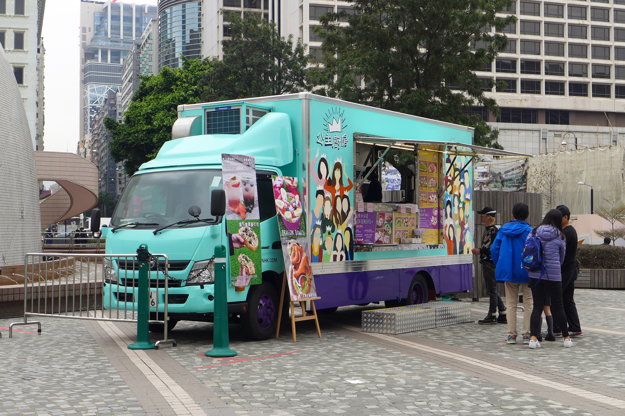 Princess Kitchen Food Track